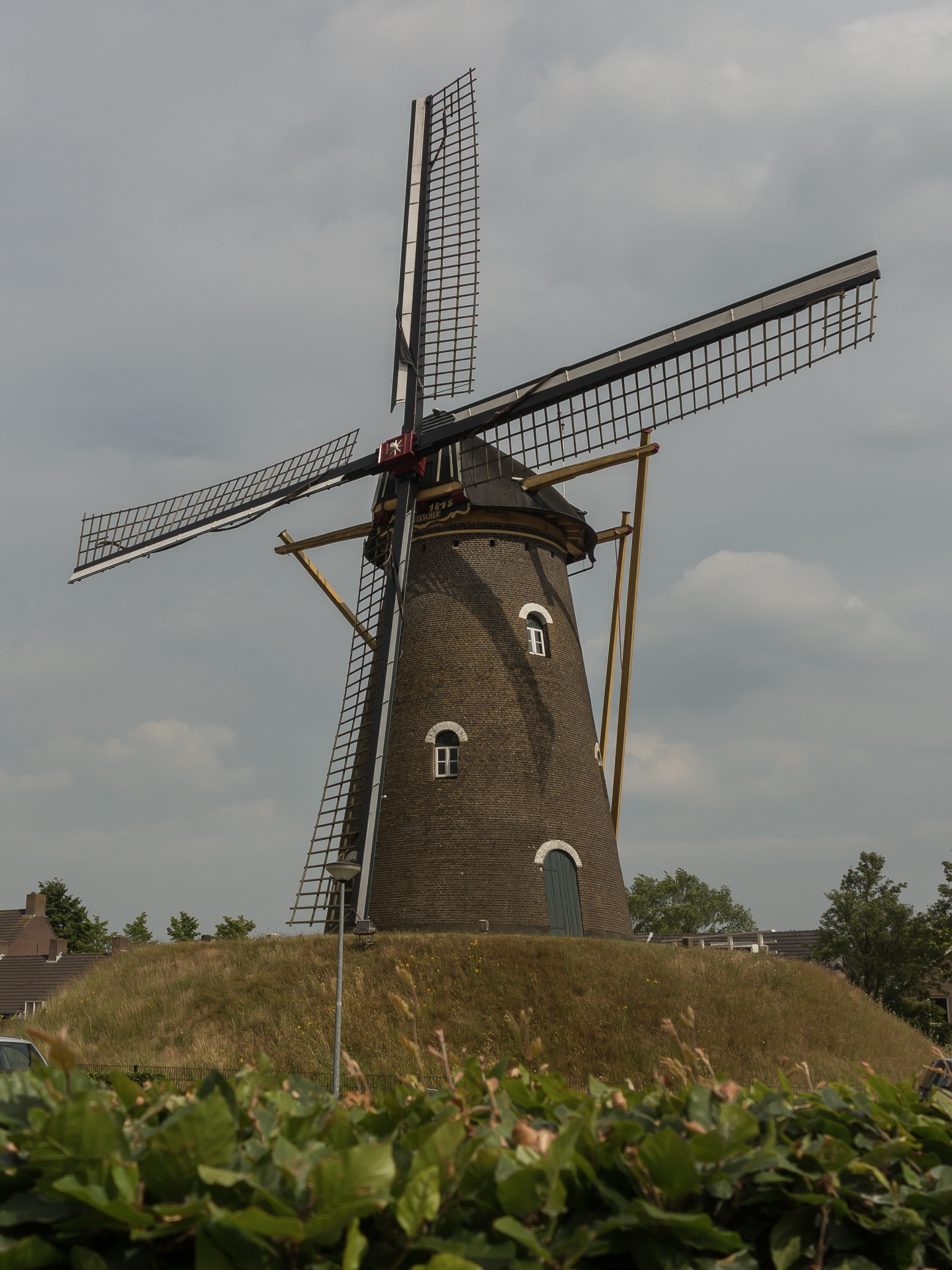 Goirle, windmill: windmolen De Visscher